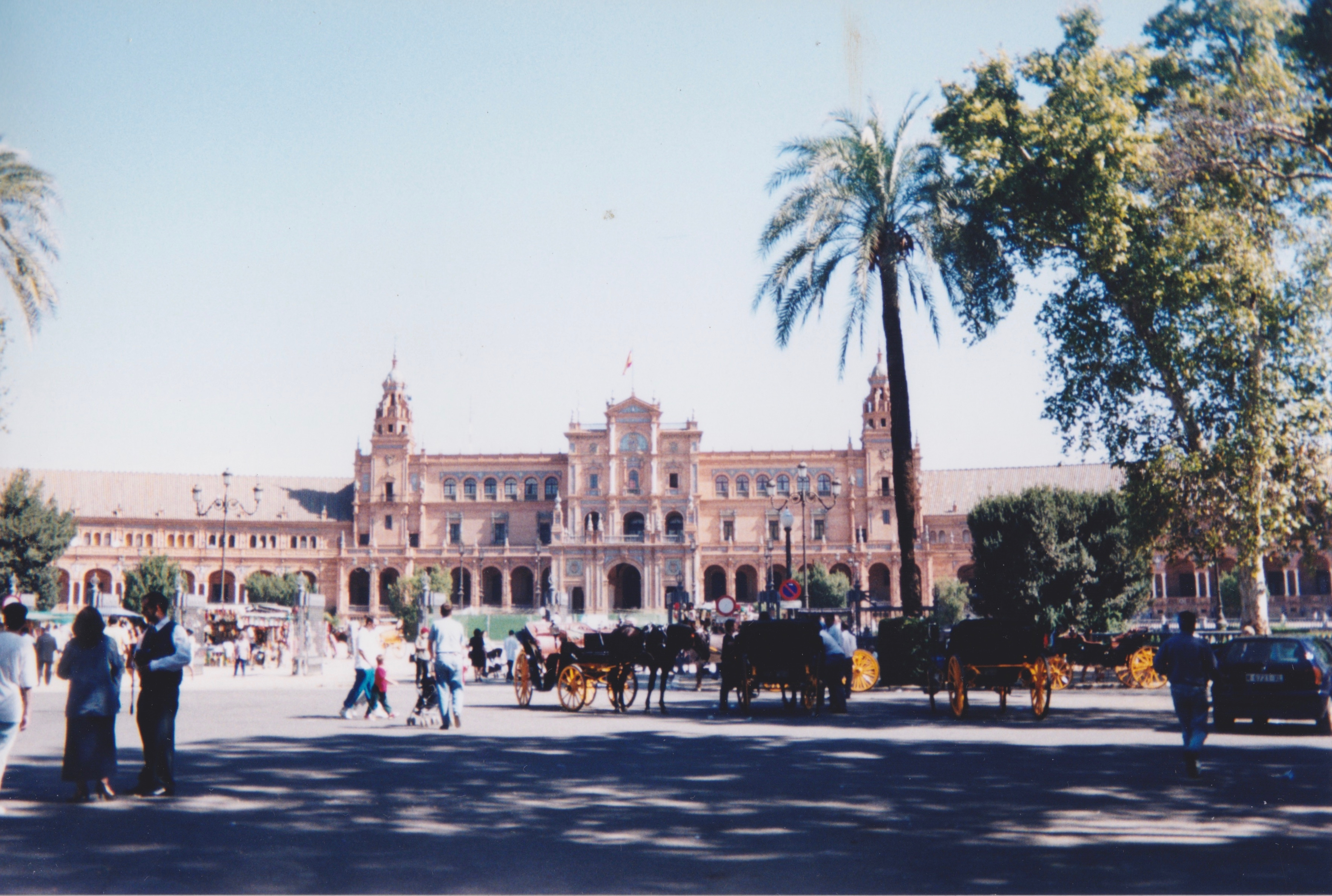 Plaza_de_España, Seville, Spain, first week of October 1999.